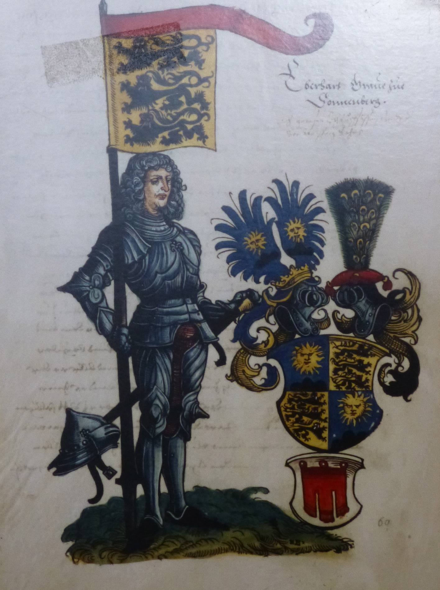 Eberhard I., Graf von Waldburg-Sonnenberg